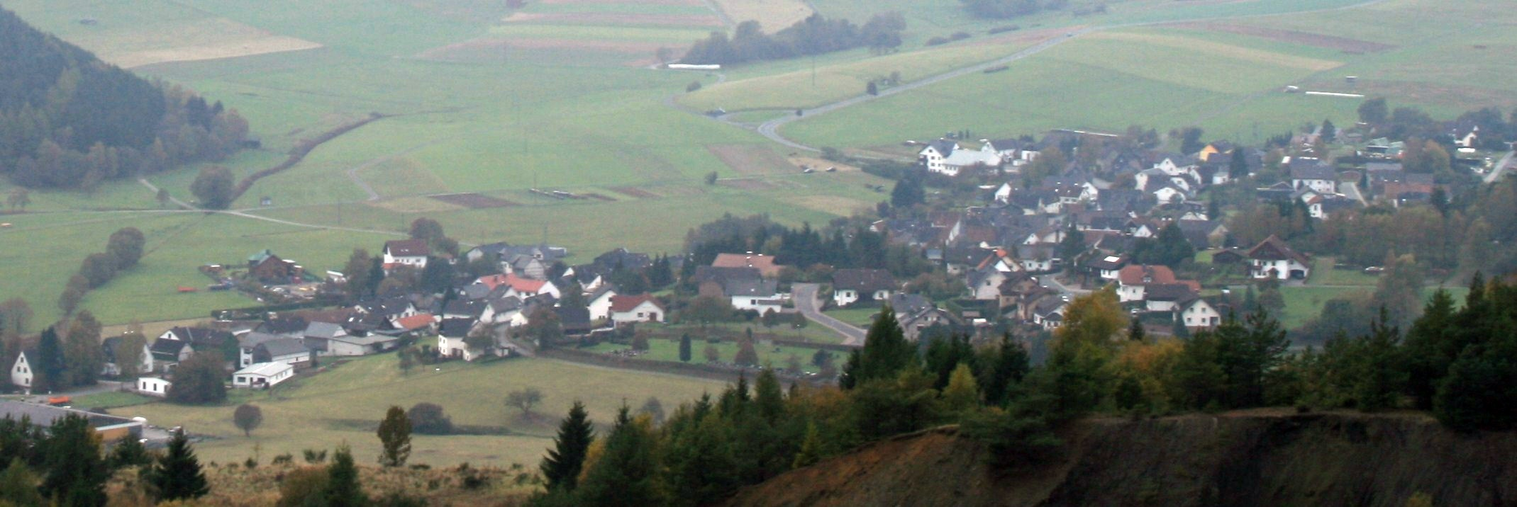 Achenbach; below: Slope of the stone quarry.